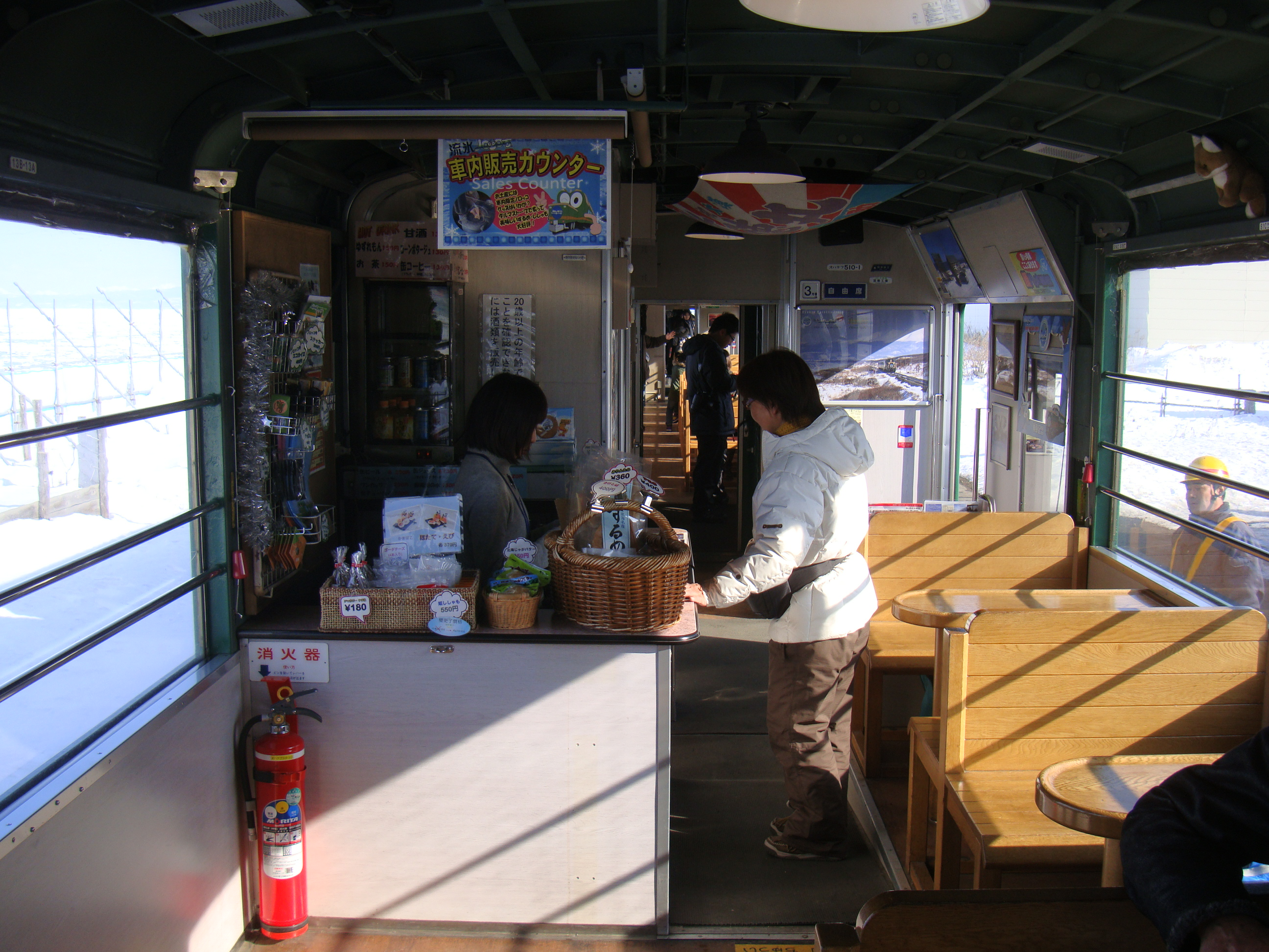 "Ryūhyō Norokko" Drift ice Sightseeing Train